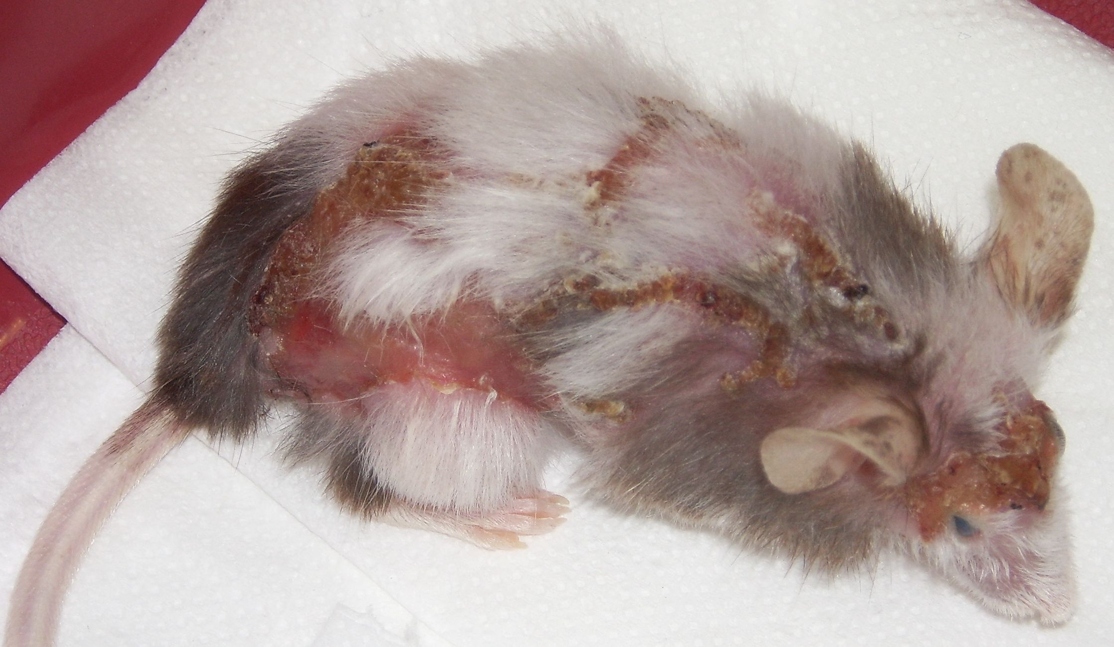 Scabies in a house mouse